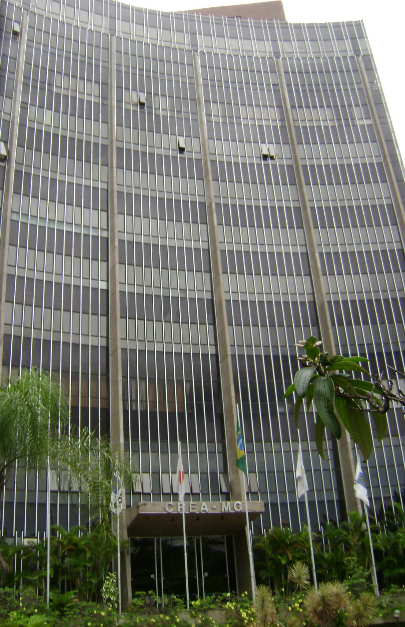 Prédio do CREA, em Belo Horizonte.